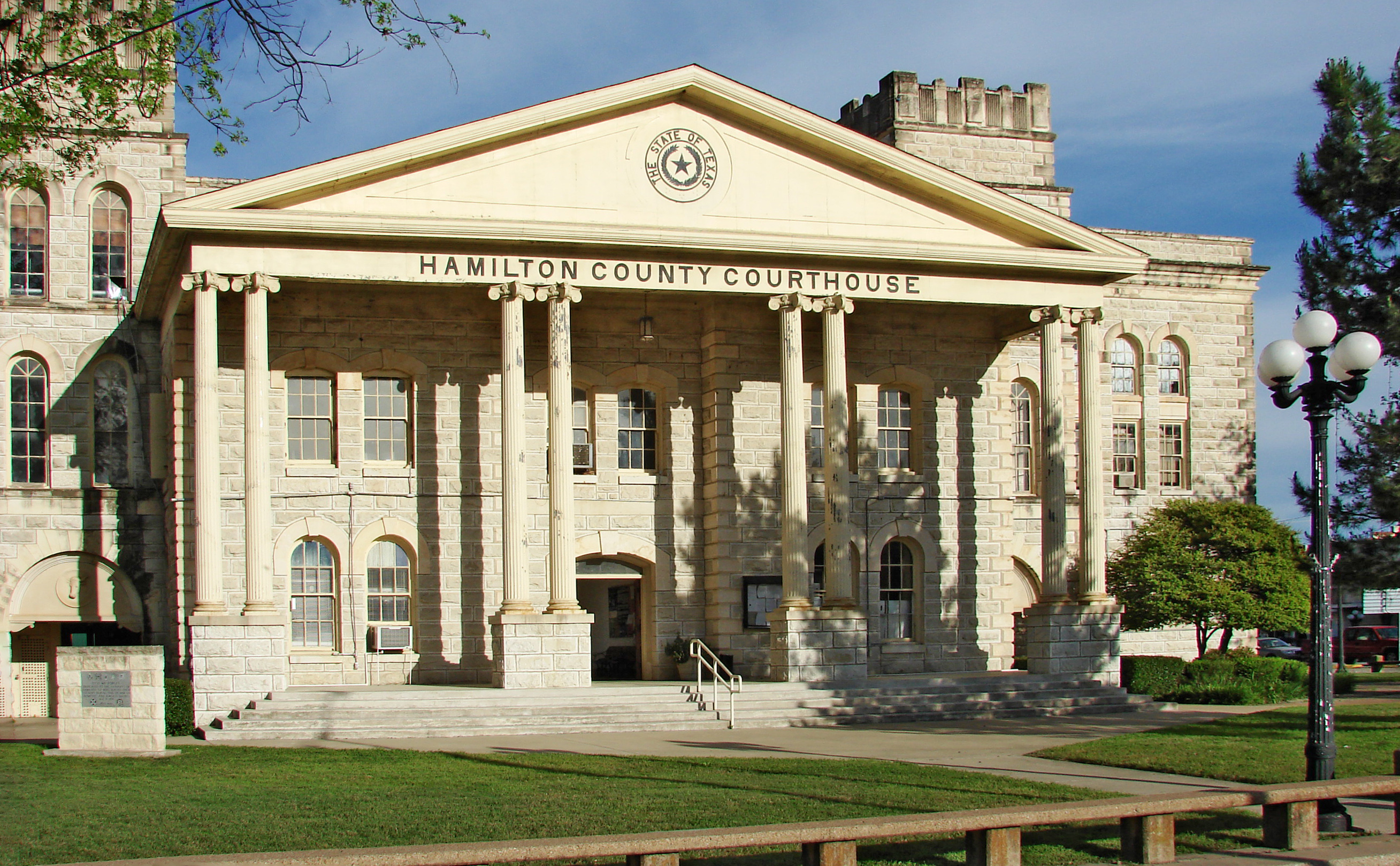 The Hamilton County Courthouse in Hamilton, Texas. Built in 1887, it was added to the National Register of Historic Places on 1980-09-04.